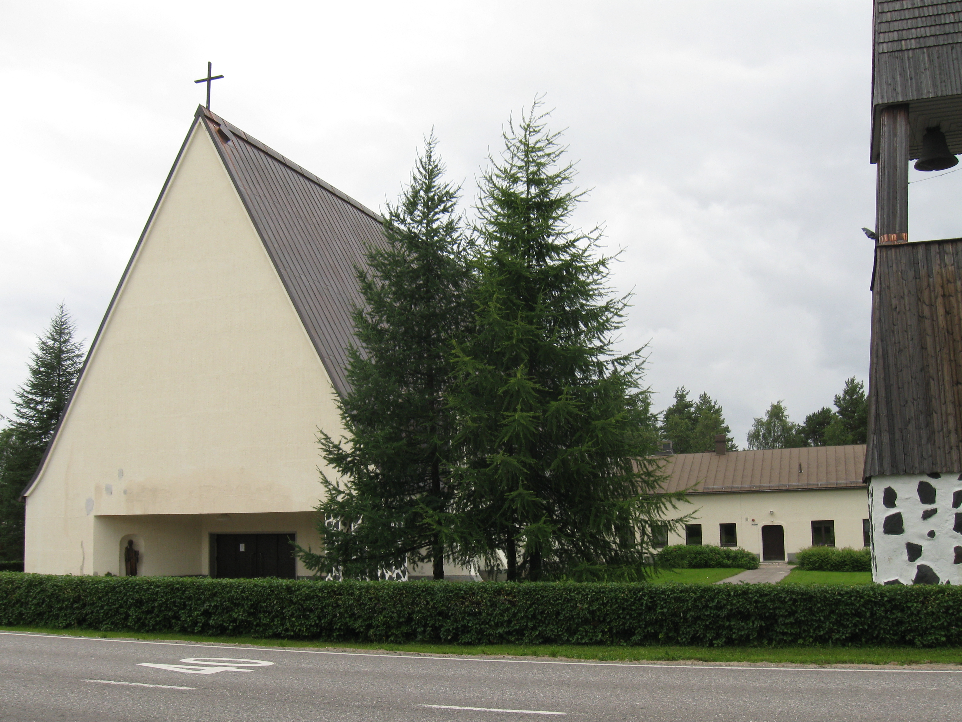 The church of Suomussalmi, Finland.